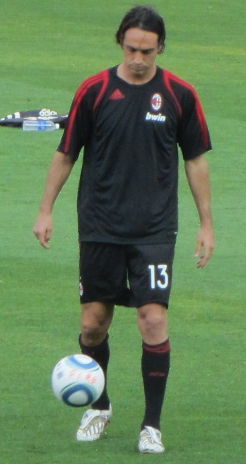 Alessandro Nesta playing for AC Milan in 2010.